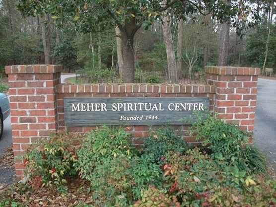 Entrance Gate to the Meher Spritual Center, Myrtle Beach, South Carolina, USA